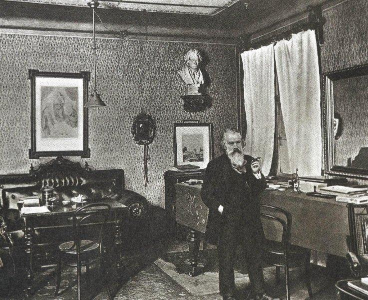 The composer Johannes Brahms in his study